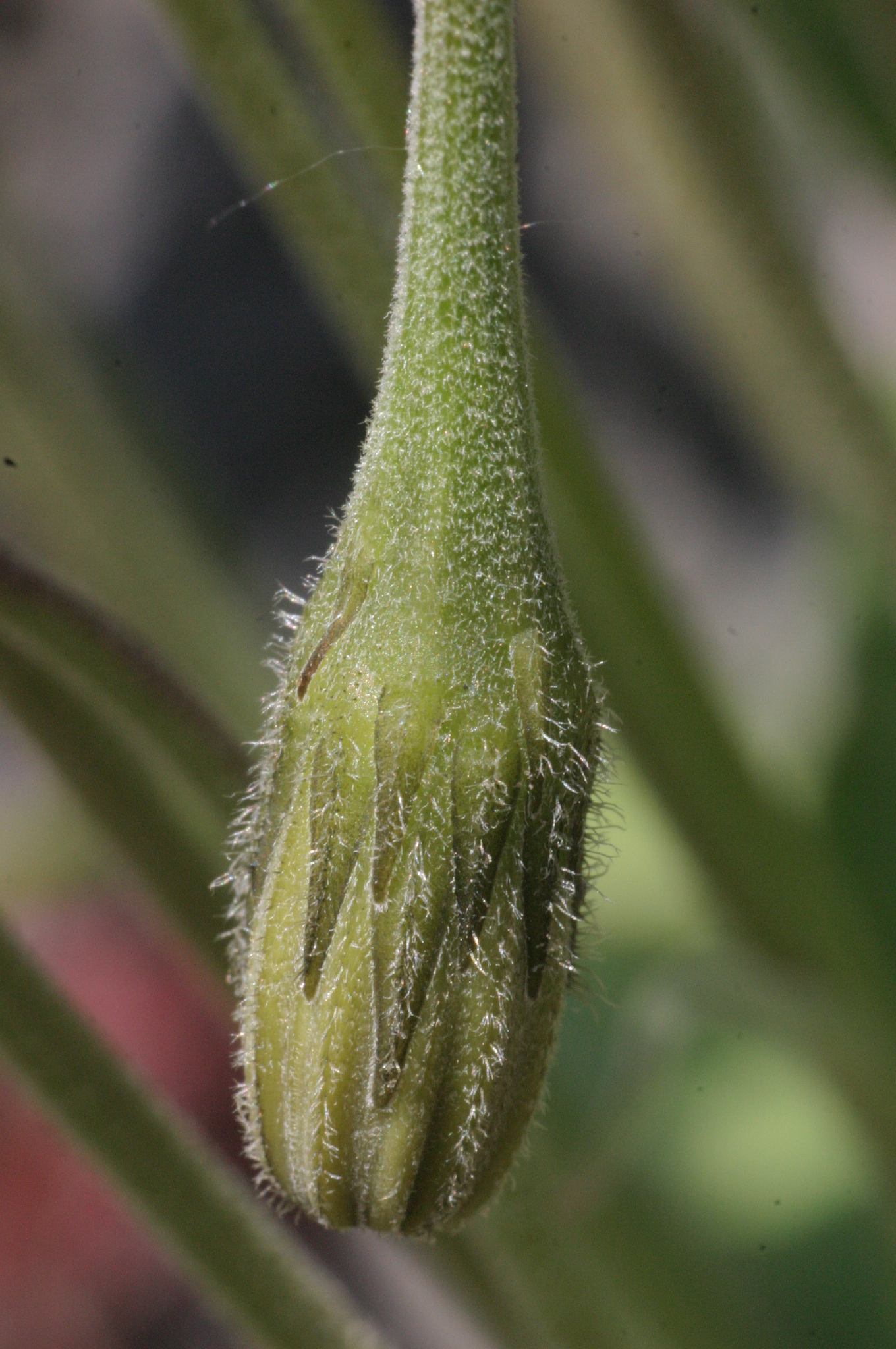 Leontodon incanus